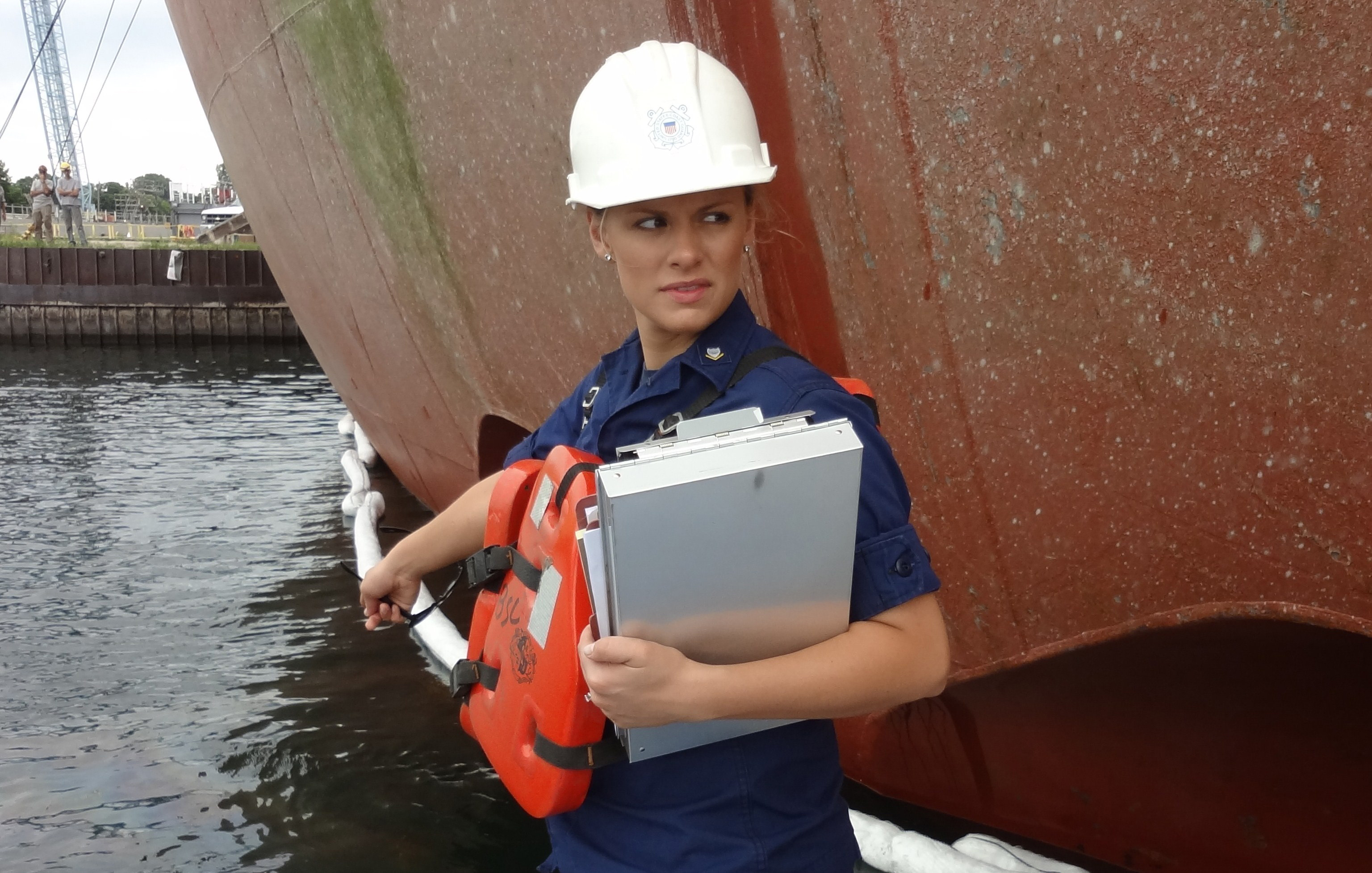 Petty Officer 3rd Class Britan Nagel, a marine safety technician from the Marine Safety Detachment in Sturgeon Bay, Wis., responds to a reported oil sheen in the Sturgeon Bay ship canal July 30, 2013. Coast Guard MSTs play an essential role in enforcing regulations for the safety of the marine environment and the security of the port.